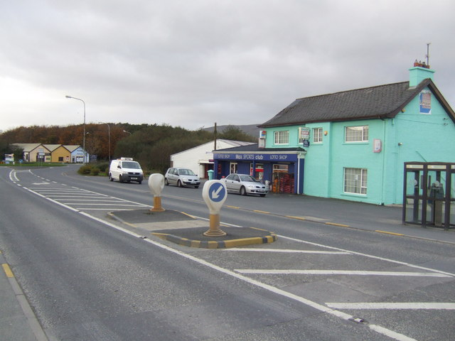 General store by the N13 at Bridge End To the west of Derry city, just into the Republic.